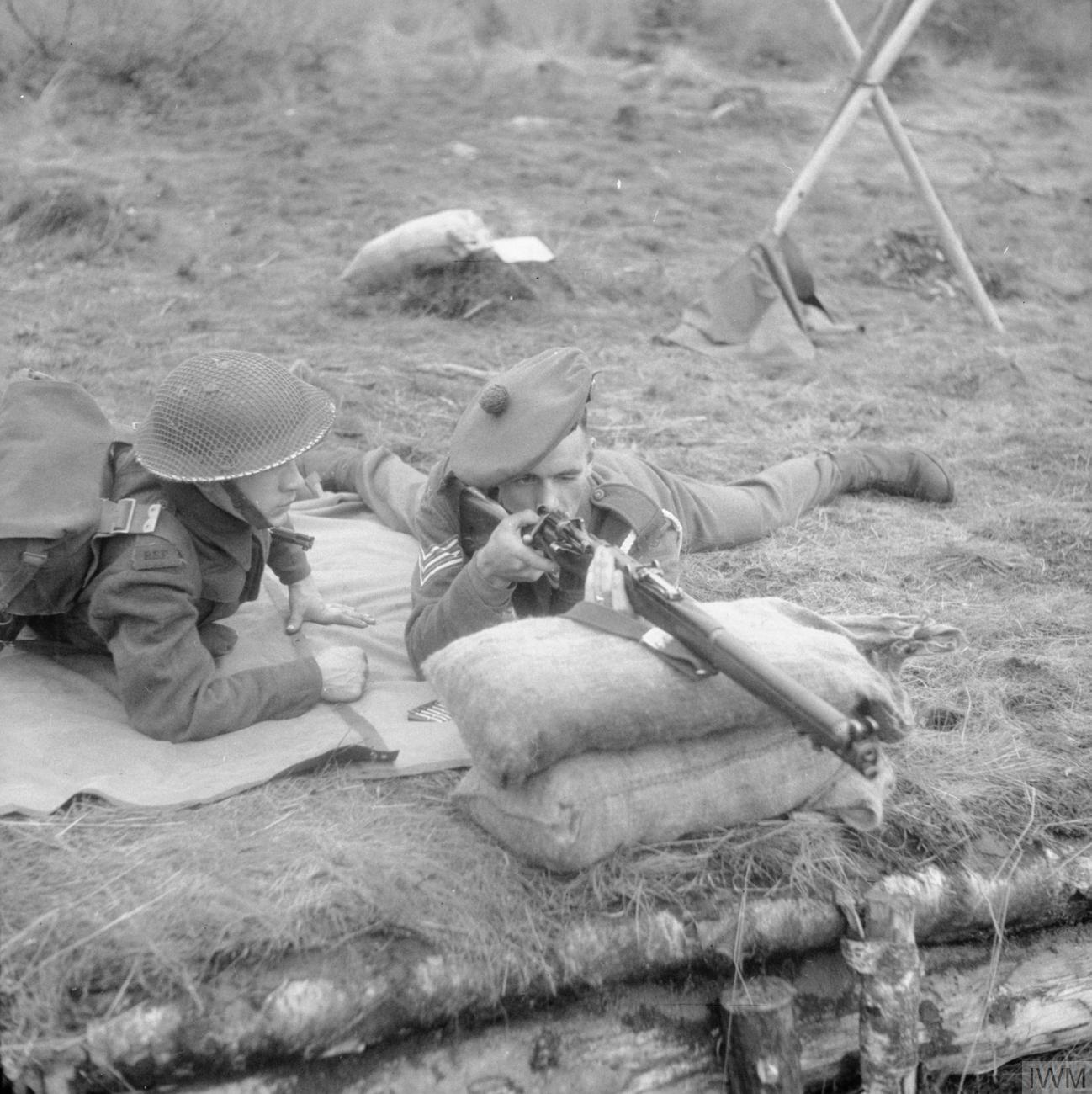 The British Army in the United Kingdom 1939-45 A sergeant instructor with the Royal Scots Fusiliers shows a recruit how to hold the SMLE Mk III Lee-Enfield rifle correctly in the prone firing position, 31 August 1942.